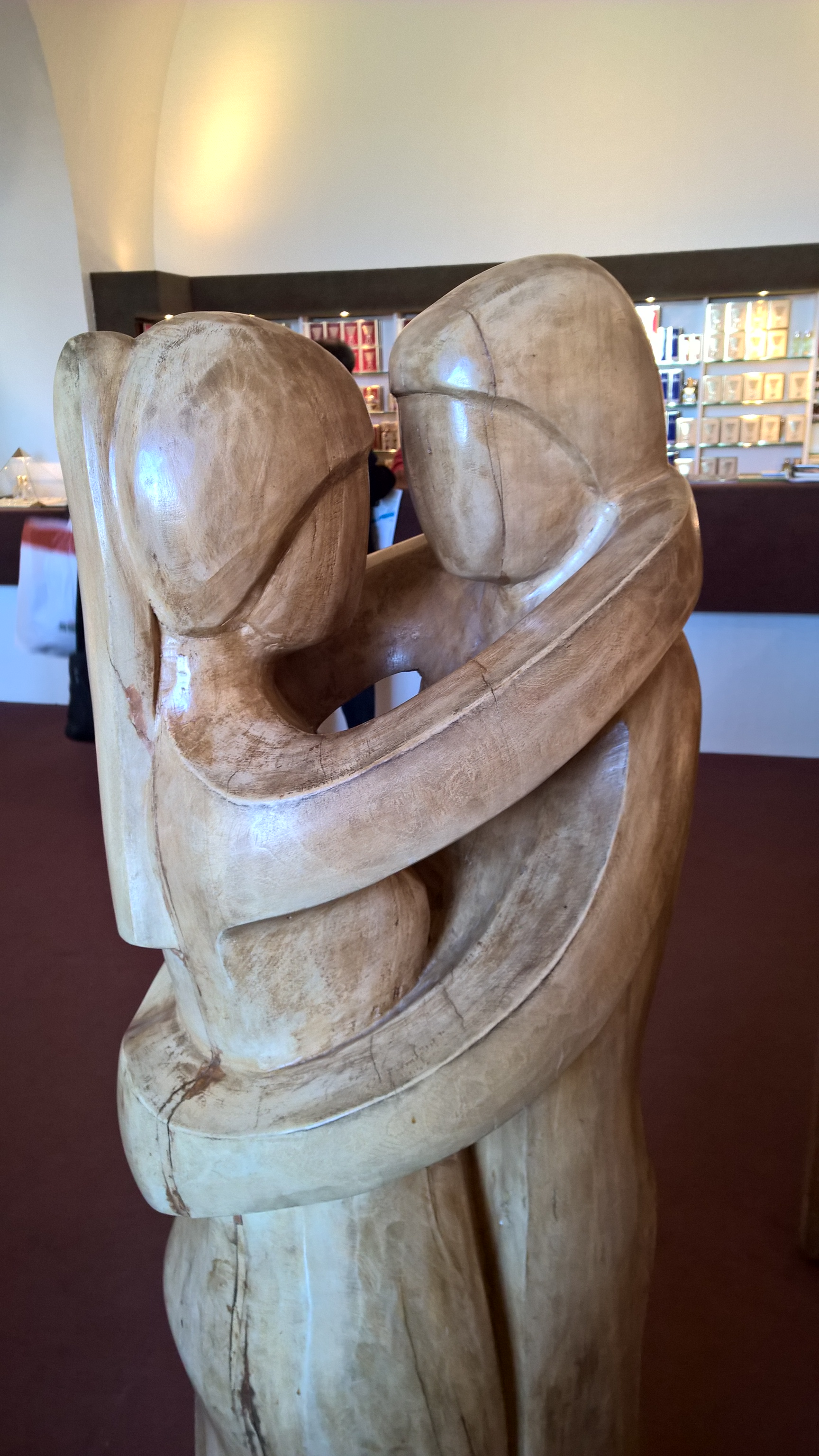 Hug in museum of parfume in Namur, Belgium